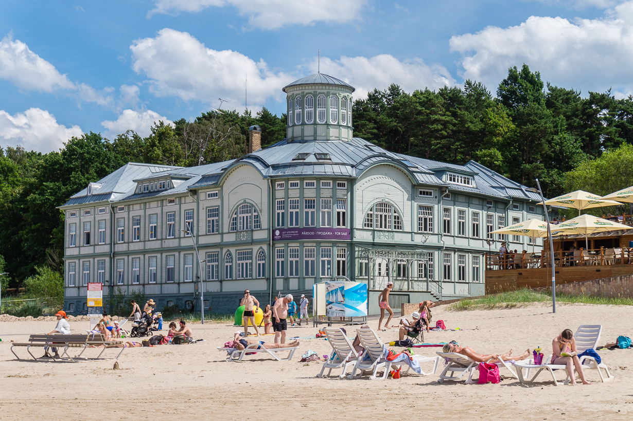 Emilija Racene Former Establishment, Jurmala, Latvia